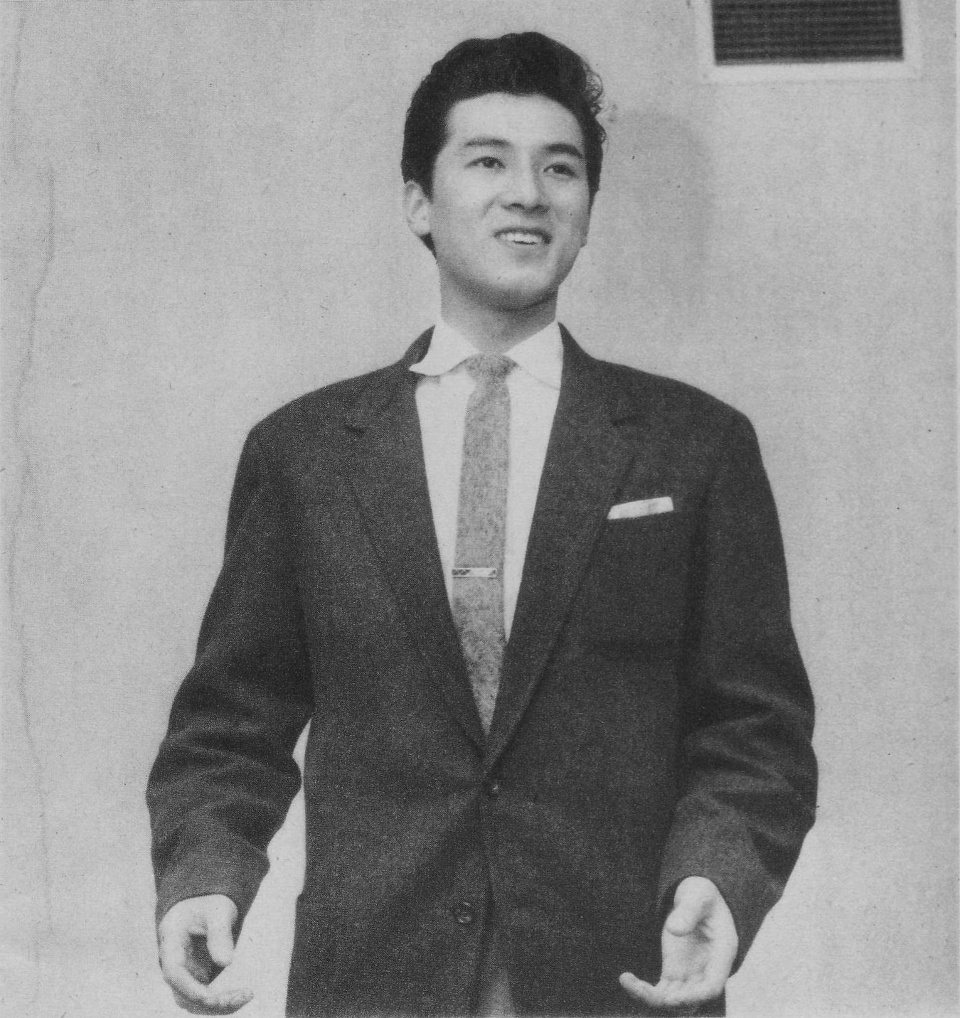 Akira Takarada. taken in 1956.